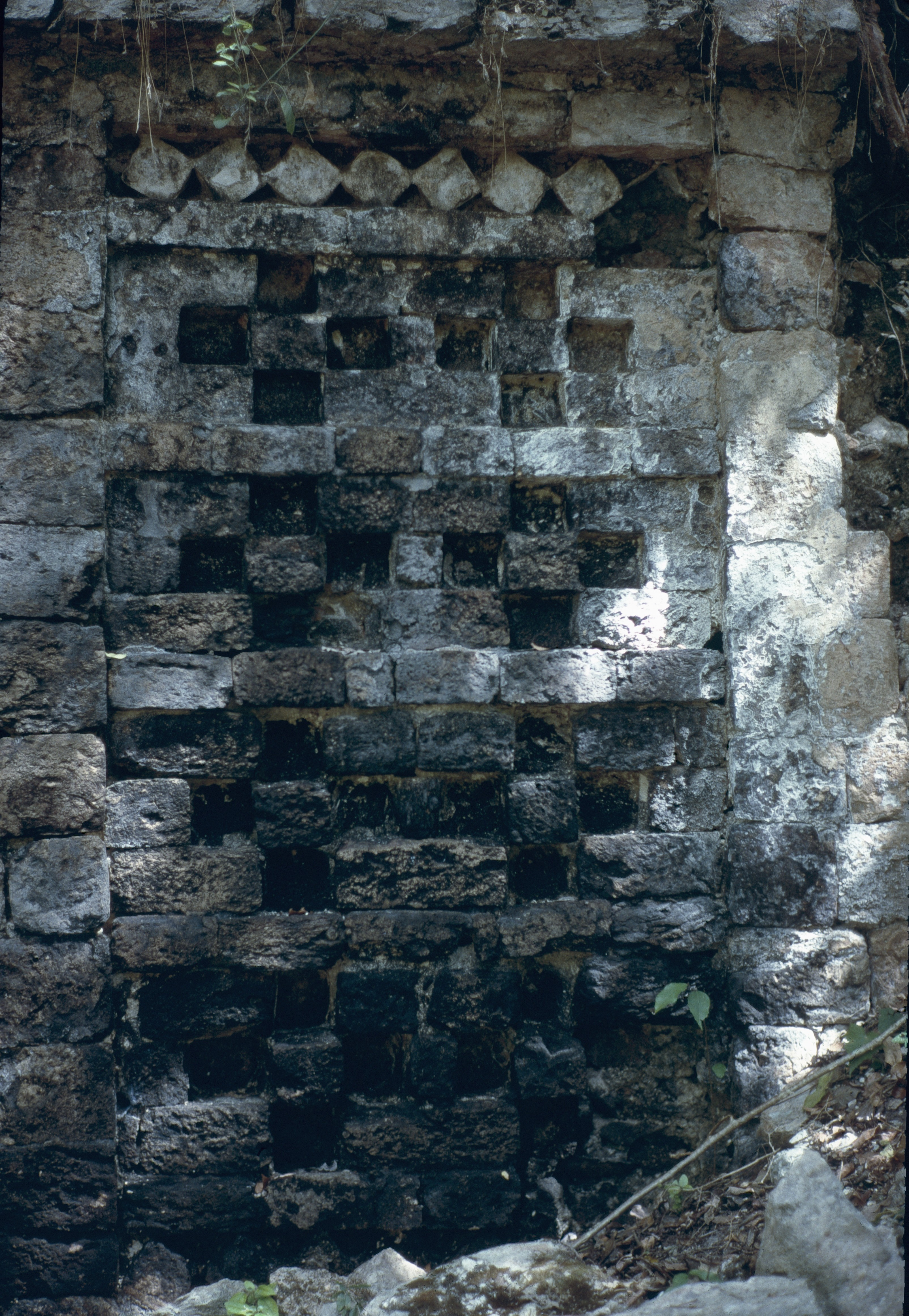 Macoba, Campeche, Mexico: Structure 1